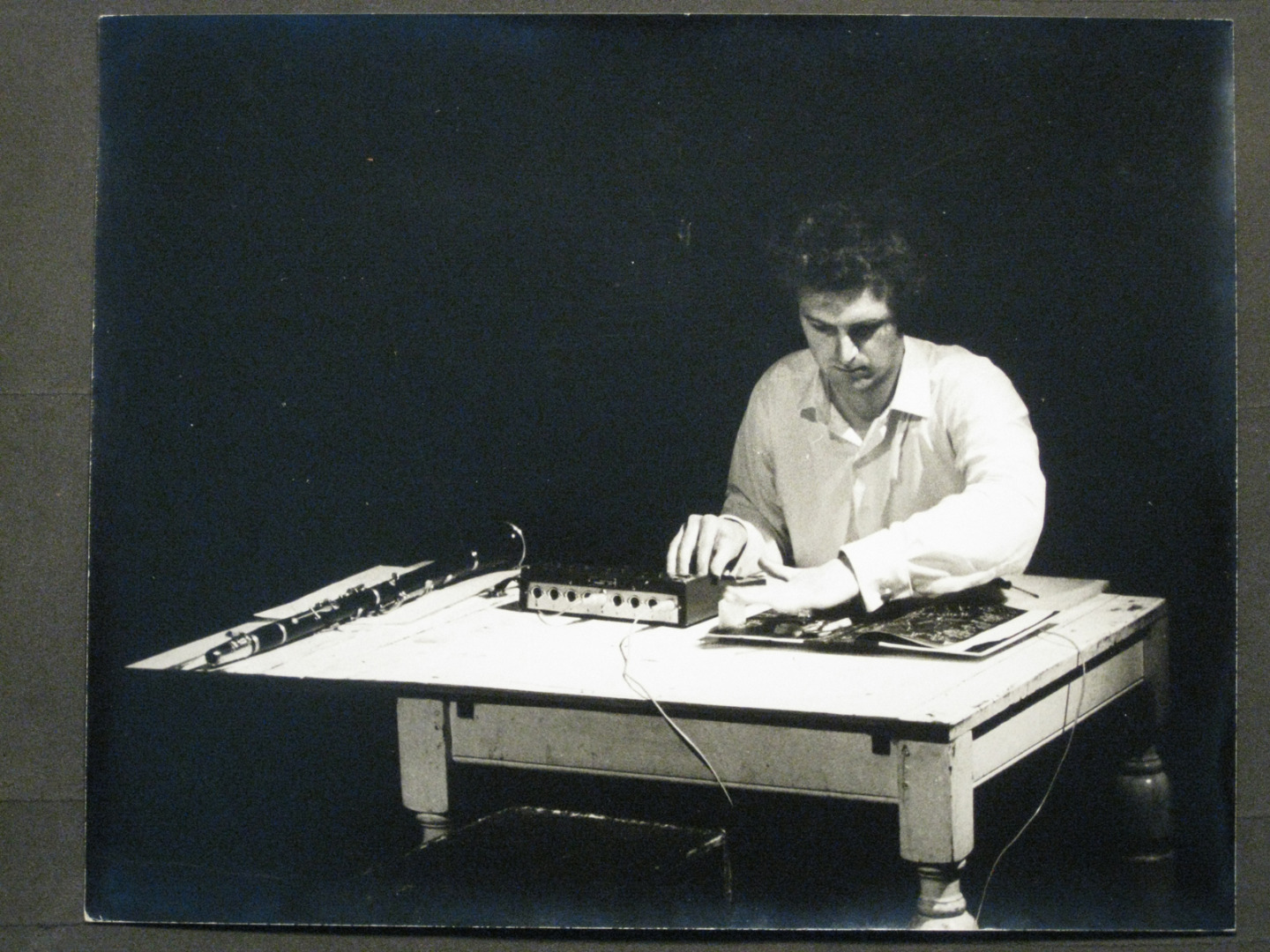 Black and white photograph of Hugh Davies with Shozyg I Uher mixer and clarinet